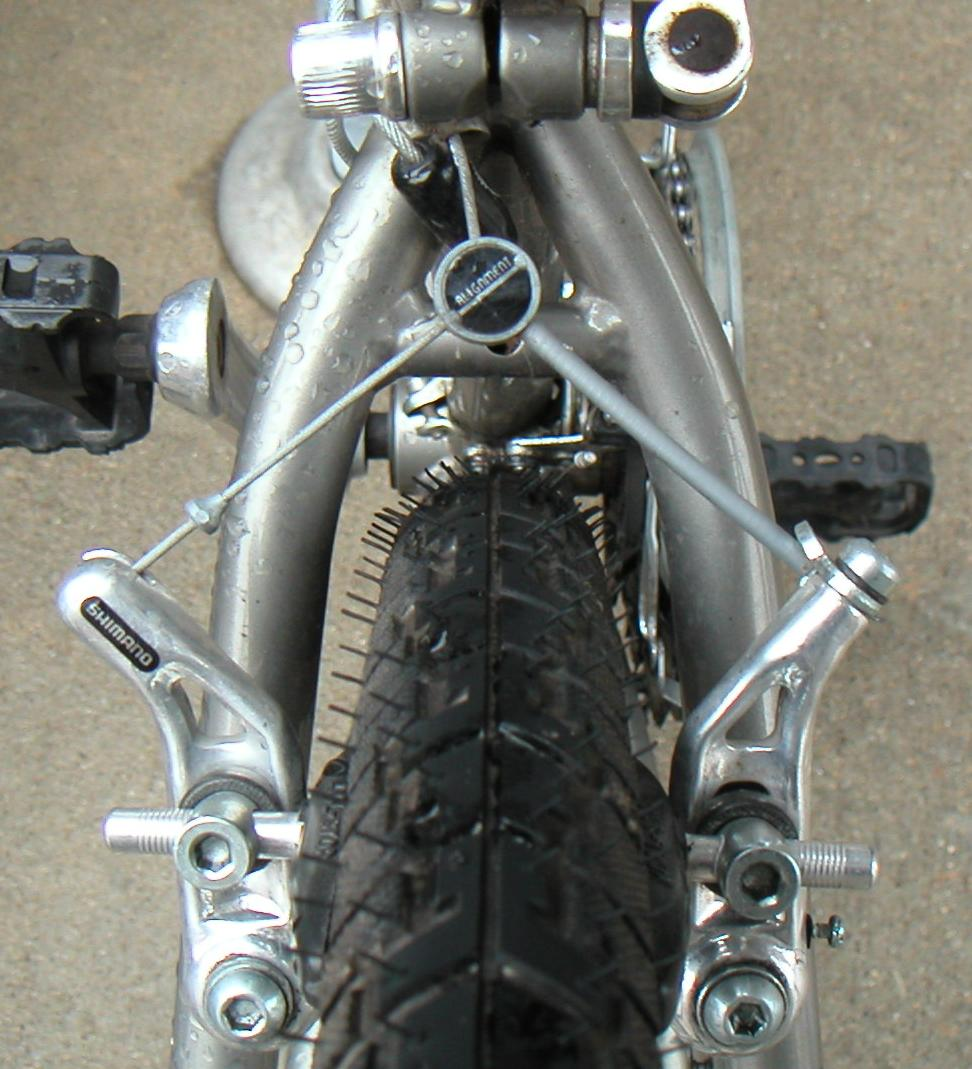 Taken by Andrew Dressel